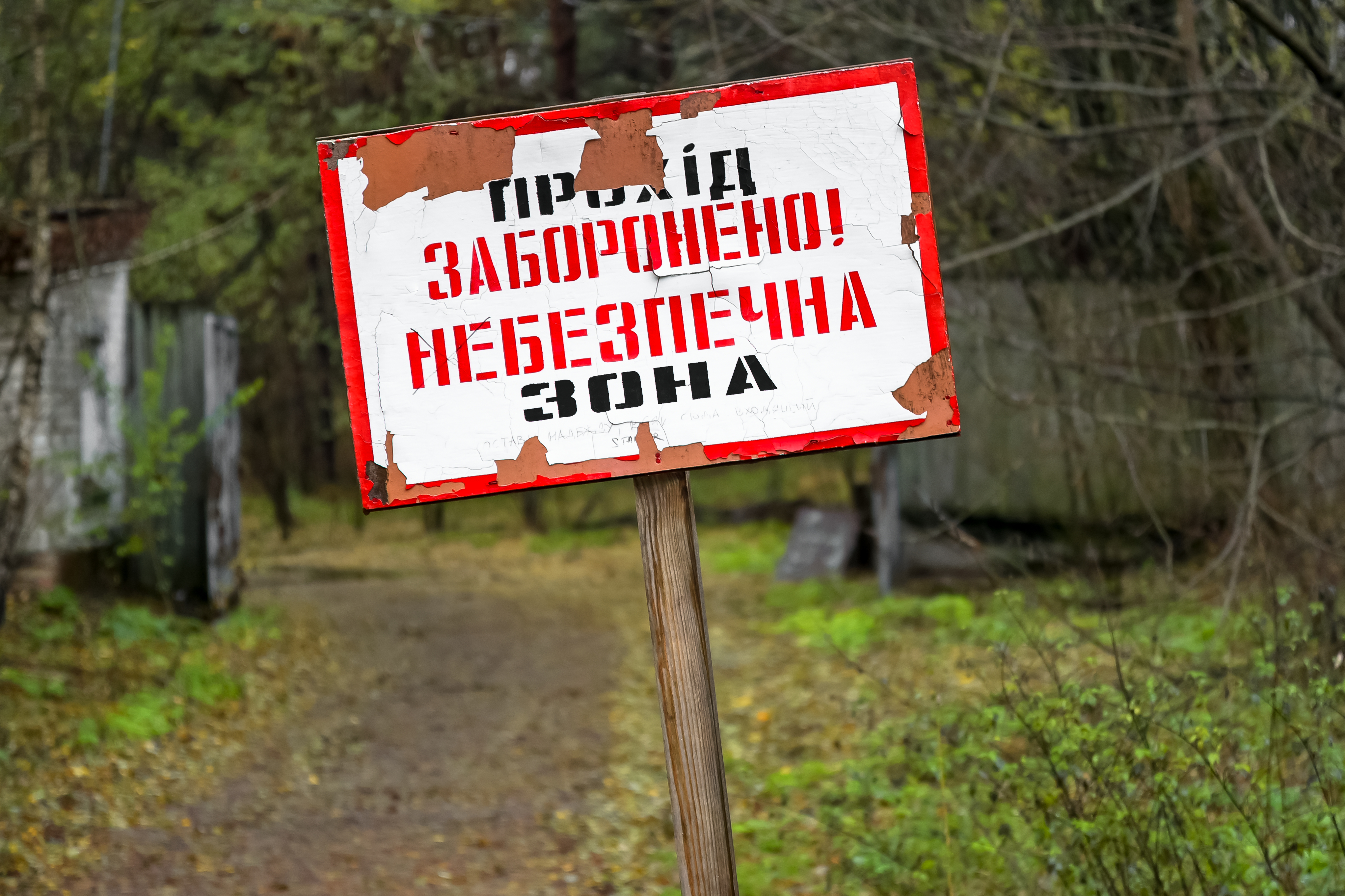 Pass is forbidden! Danger zone. Chernobyl (Ukraine)